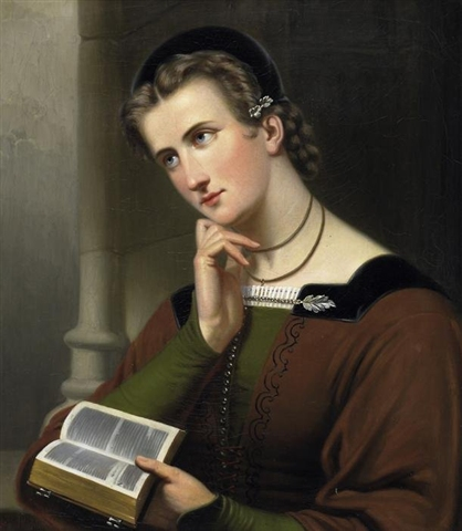 Portrait of a young woman with Bible